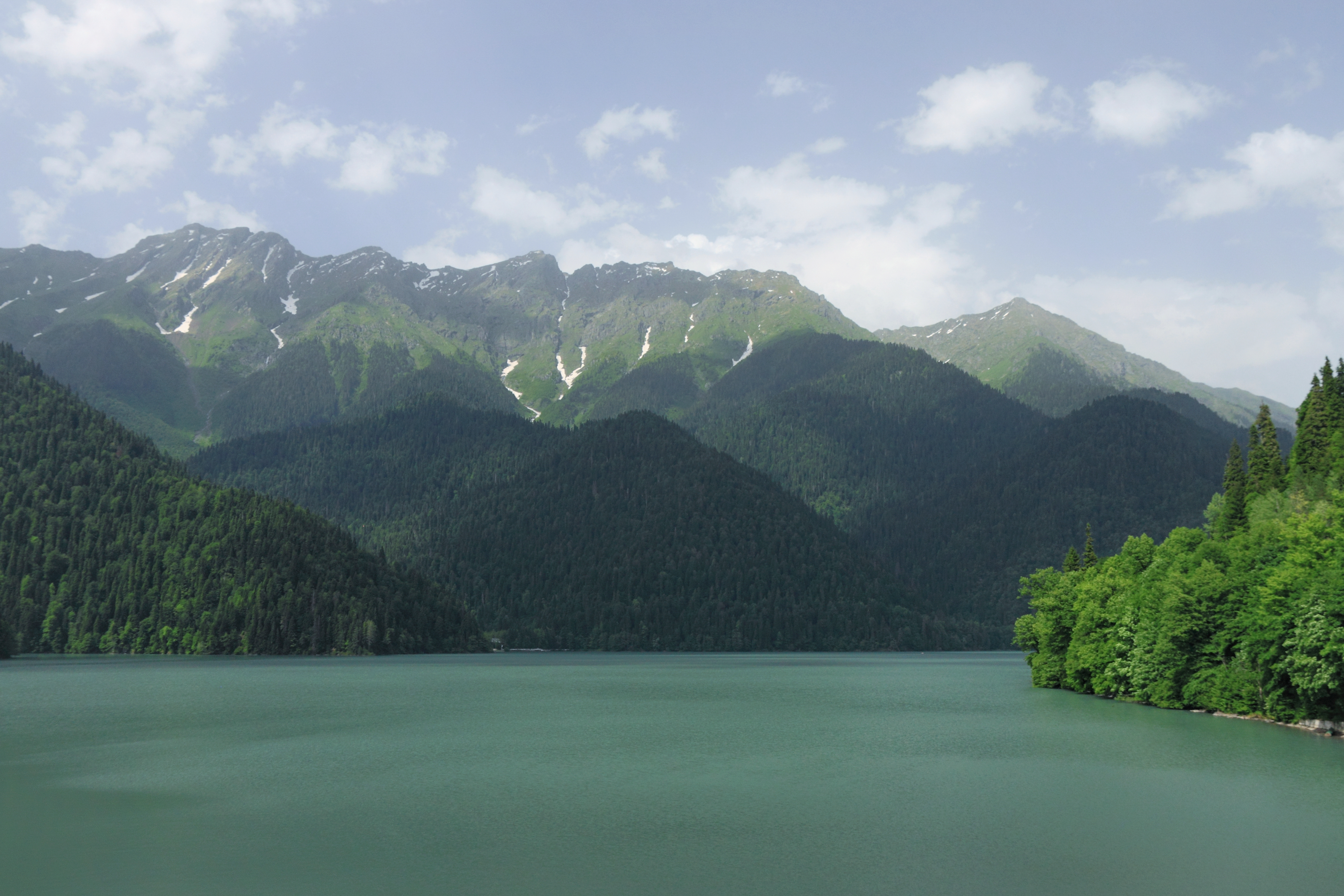 View of the Lake Ritsa from the south-west. Ritsa Relict National Park, Gudauta District, Abkhazia.